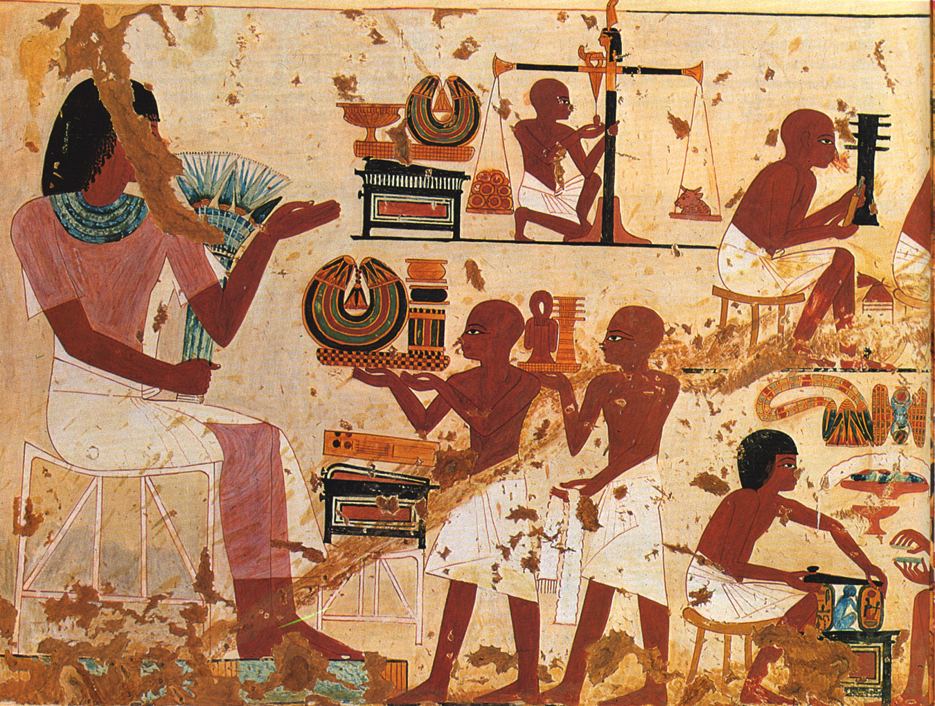 Facsimile, Nebamun (TT 181), Ipuky, jewelers, carpenters, metal workers